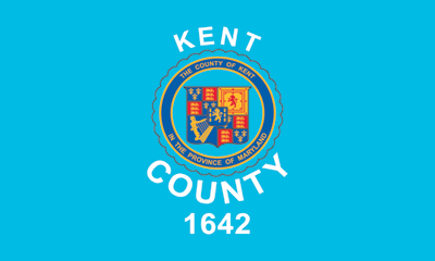 Flag of Kent County, Maryland, adopted as part of the 1989 county code.